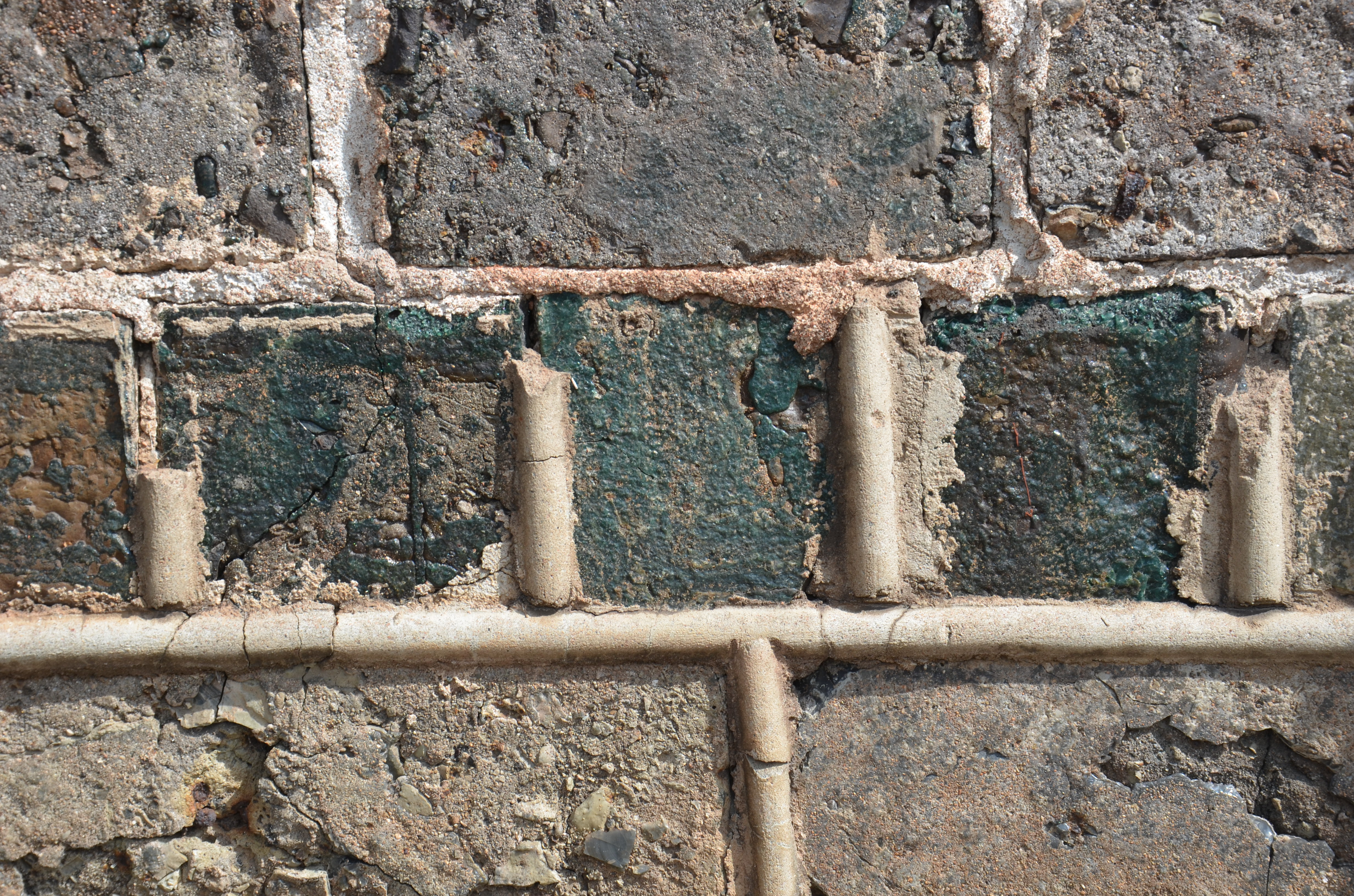 Slaggsten, använd för uppmurning av Gröndalsgruvans lave, Klackberg